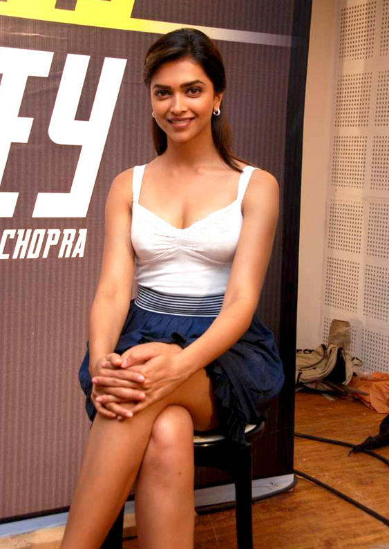 Bollywood actress Deepika Padukone at Lafangey Parindey music launch event